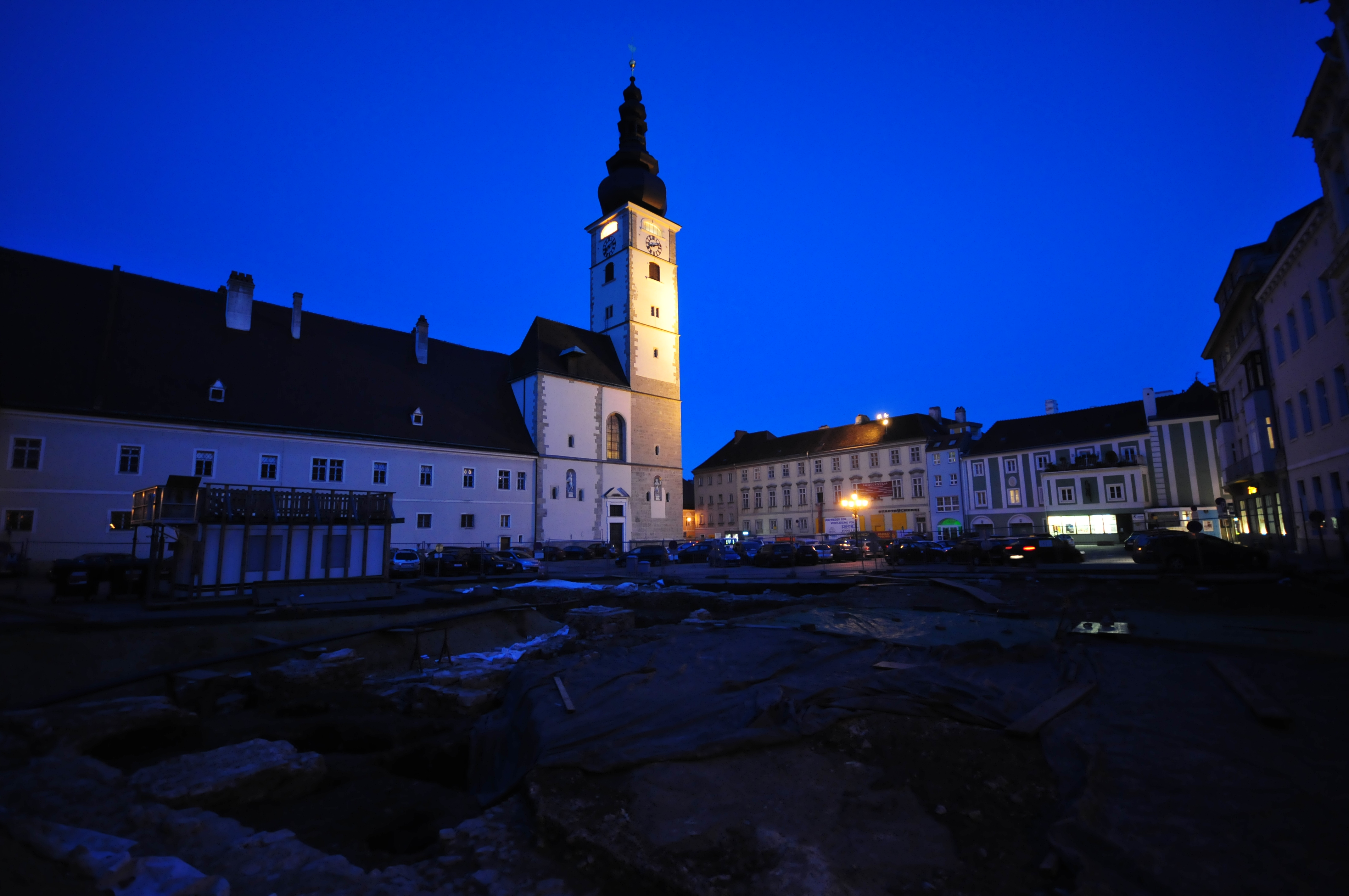 St. Pölten, Austria Fotowanderung St. Pölten 13. April 2013 in St. Pölten, Niederösterreich 50mm • Allgemeines • Bahnhof • Domplatz • Fahrräder • Landhausviertel • Rathausplatz This file is used in a Wikiversity project or course. Please don't change it before you inform the author.